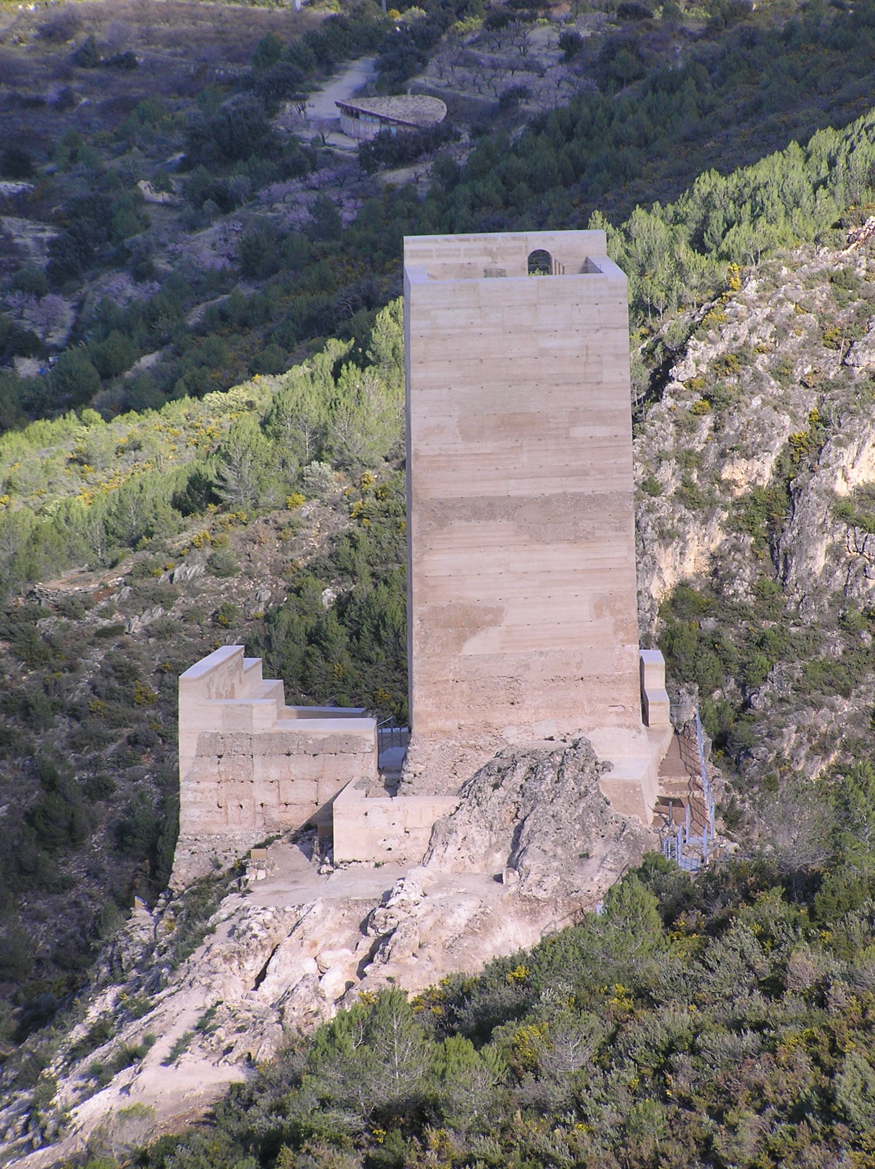 Town of Castle of Carricola